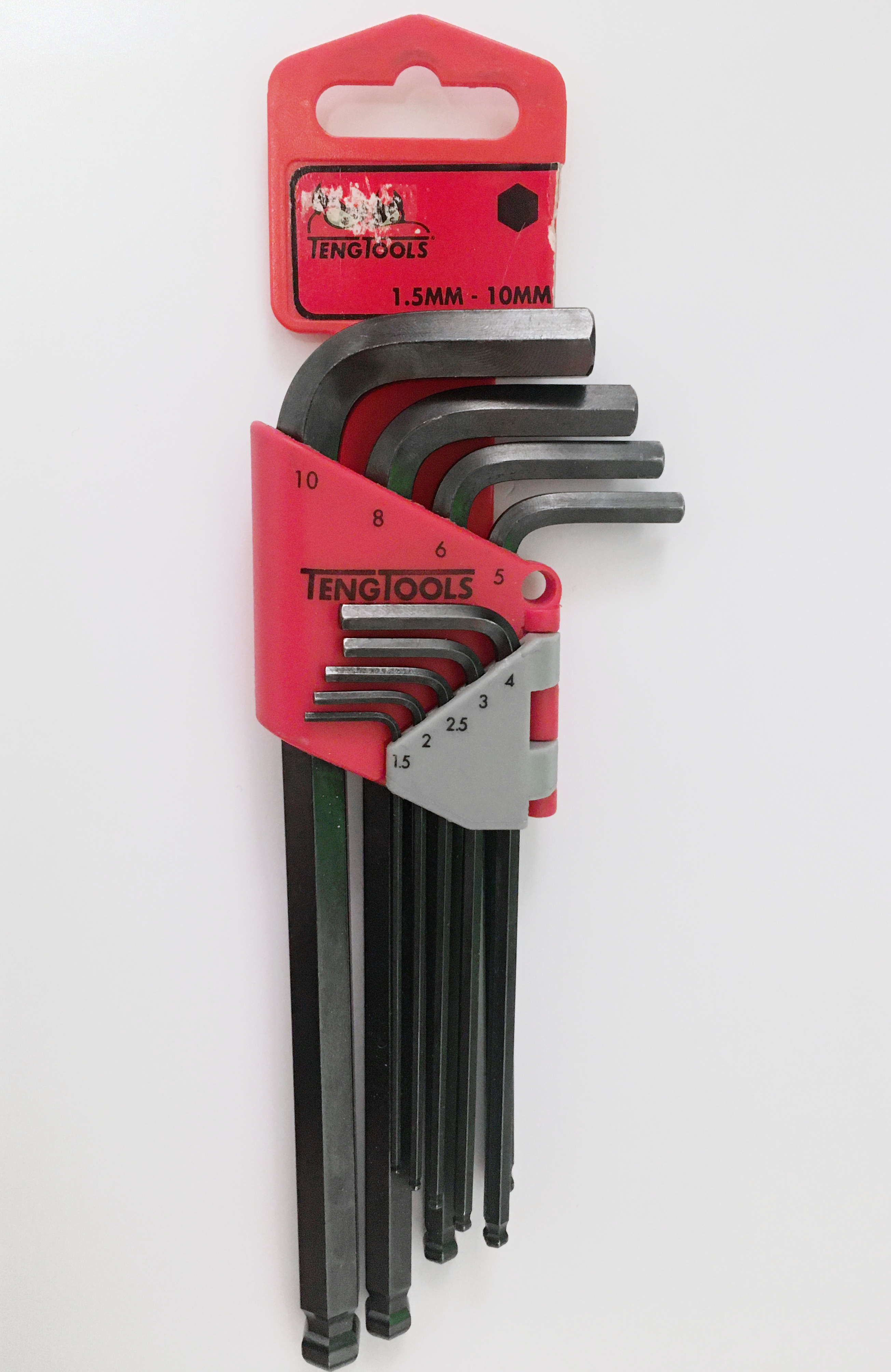 The most common metric hex key sizes, also known as the 1st choice metric key sizes, which are sized at intervals such that it should not be possible to use a key with the wrong size, thereby reducing the risk of damaging either the screw head or the tool itself if the wrong tool should be used.